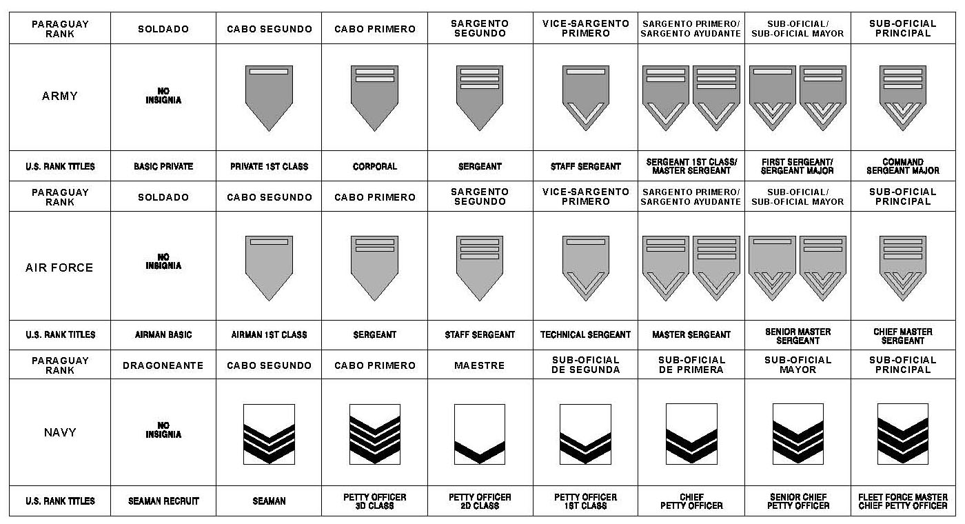 Paraguayan Military Ranks with their US Armed Forces Equivalence